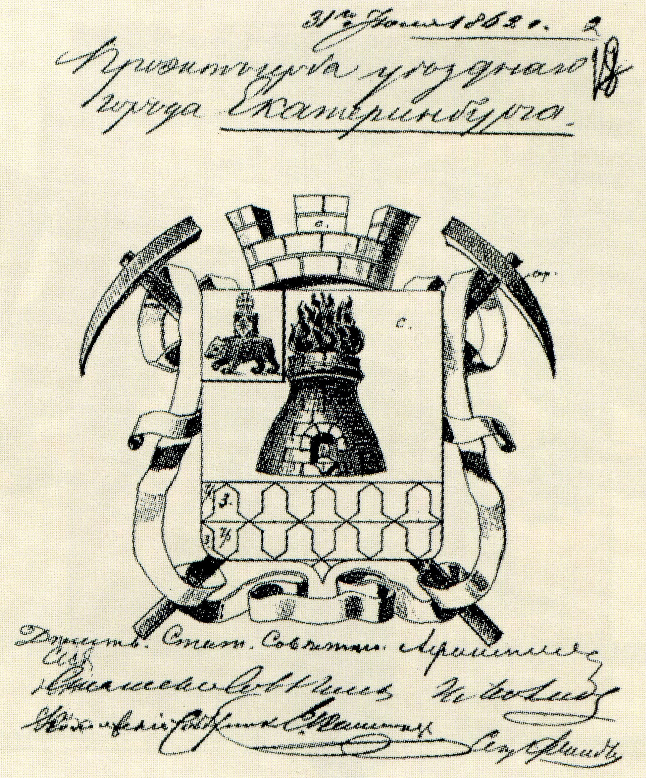 Coat of Arms of Yekaterinburg, proposal, 1862 "В серебряном щите чёрная плавильная печь с червлёными швами и таковым же пламенем. В оконечности щита шапочки, черныя и золотыя о двух рядах. В вольной части герб Пермской губернии. Щит украшен серебряною башенною короною о трёх зубцах. За щитом две на крест положенныя золотыя кирки, соединенныя Александровскою лентою"